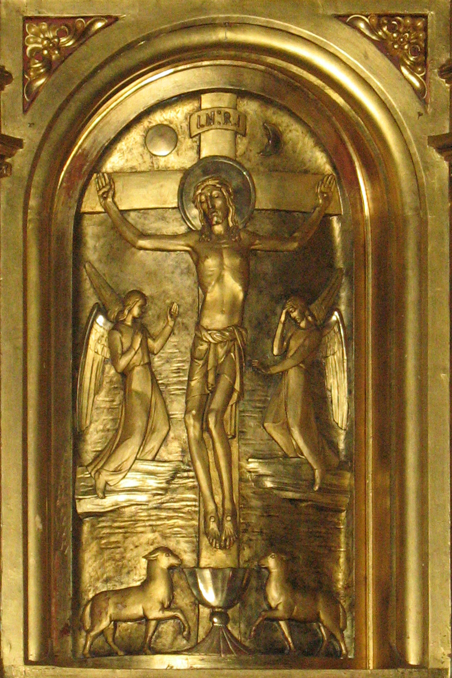 From the parish church of St. Ulrich in Gröden - Ortisei Val Gardena - Sculptor Ludwig Moroder